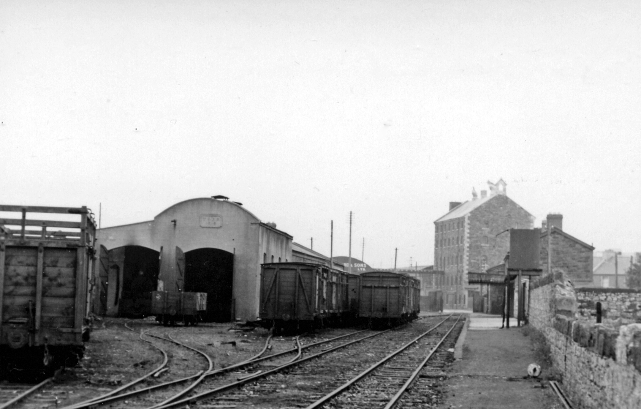 Tralee station and sheds, 1948Terminus of CIE (ex-Great Southern & Western) from Killarney etc. also until 6/53 of the Tralee & Dingle Railway.